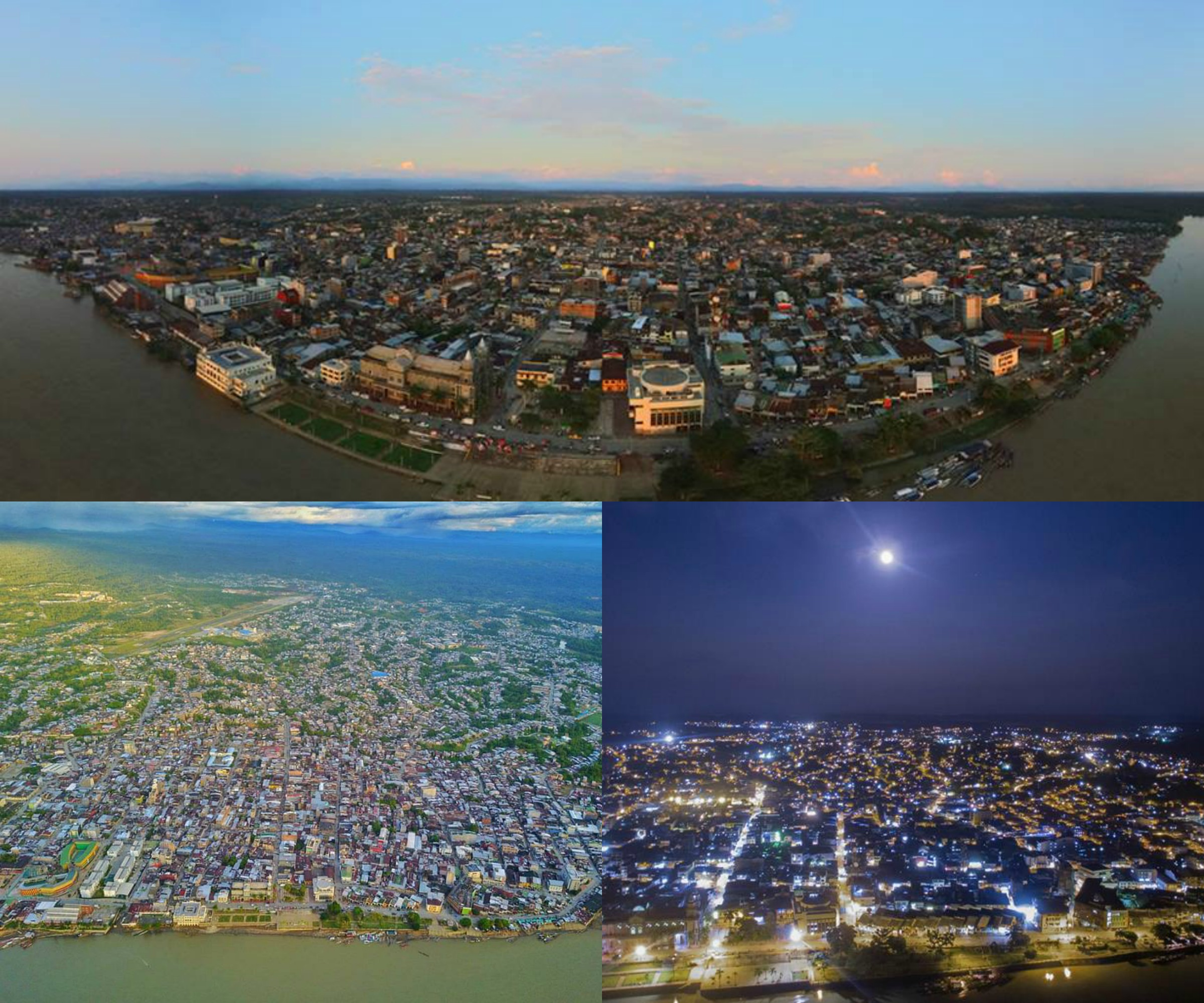 Quibdo City